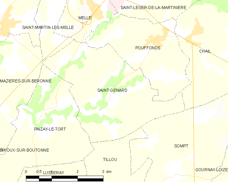 Map of French municipality Saint-Génard